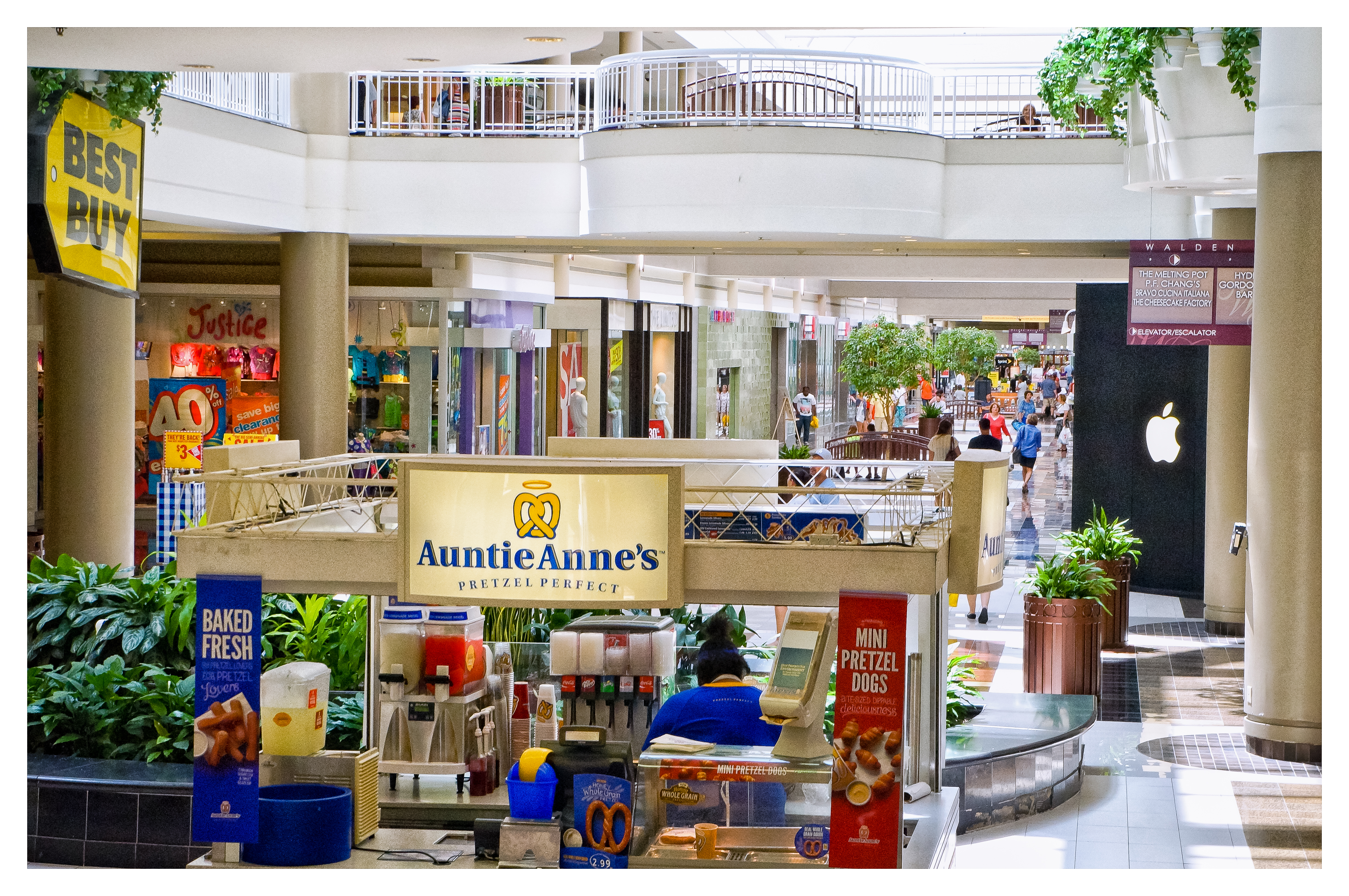 The Walden Galleria main concourse in Buffalo, New York